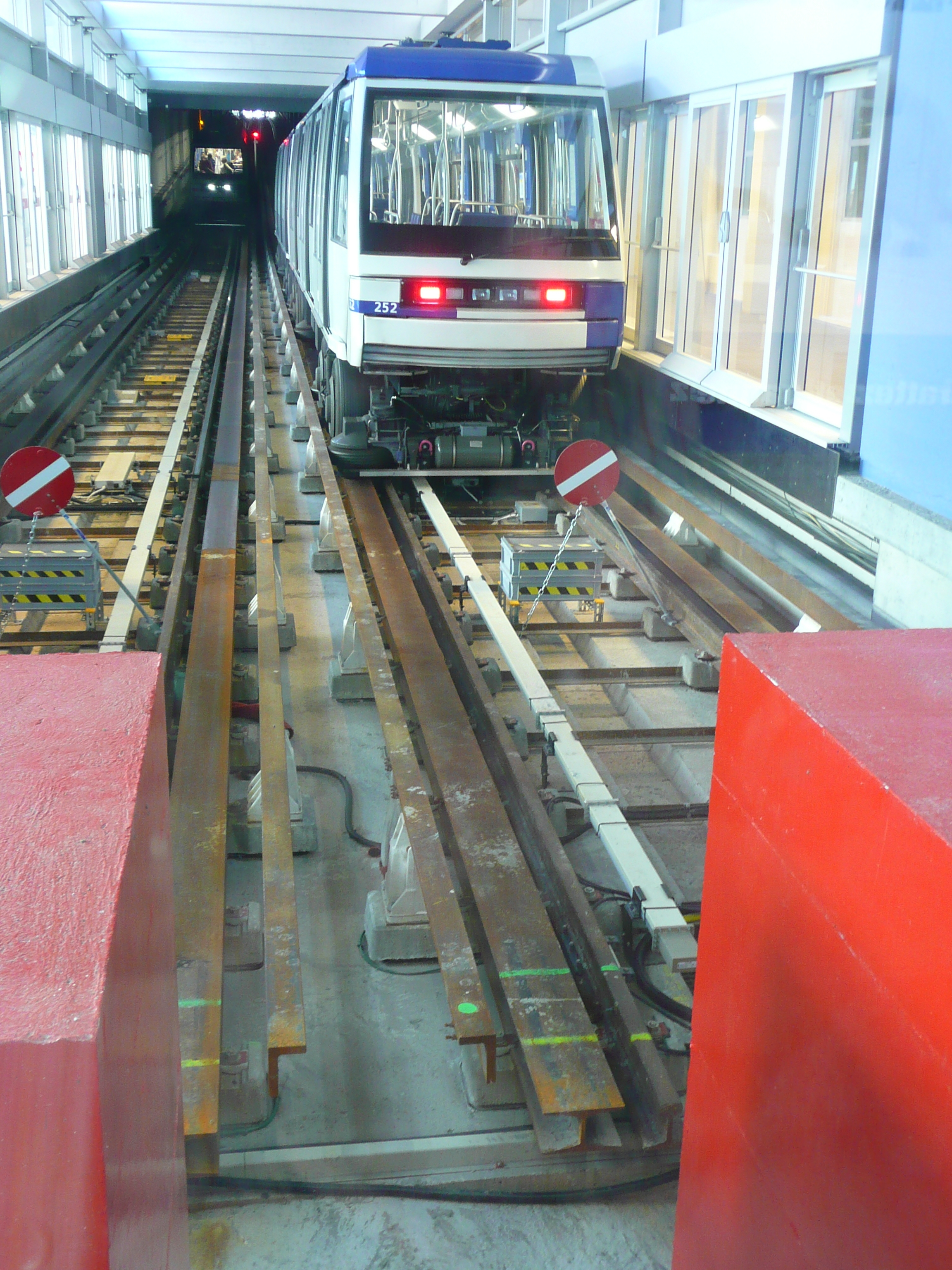 Ouchy M2 station, showing a train stabled on a closed platform 'not in use' and another train approaching in the distance. As this station is the end of line the photograph was taken in a way that also shows the track end, including the side guiderails as well as the rails used by the weight-bearing wheels. Photographed through a glass wall.